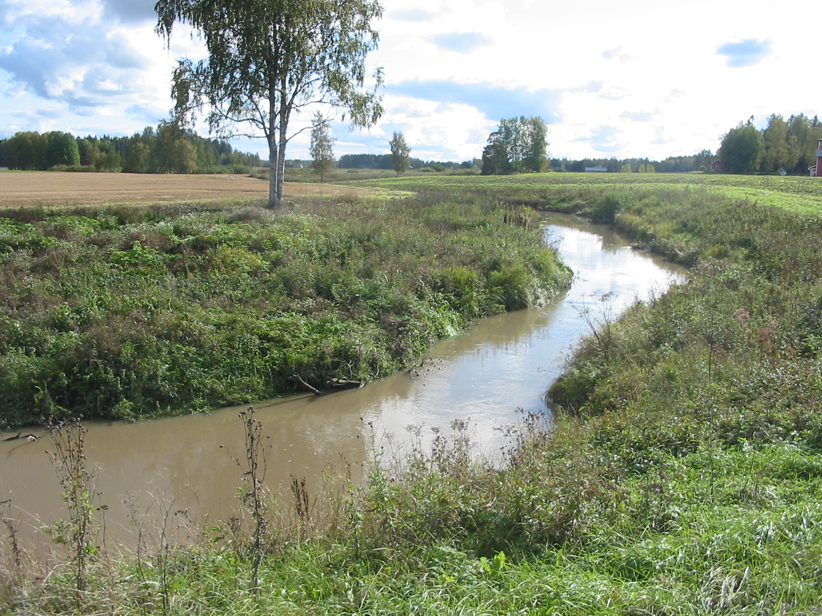 The River Kuusjoki in Manninen, Ypäjä, Finland